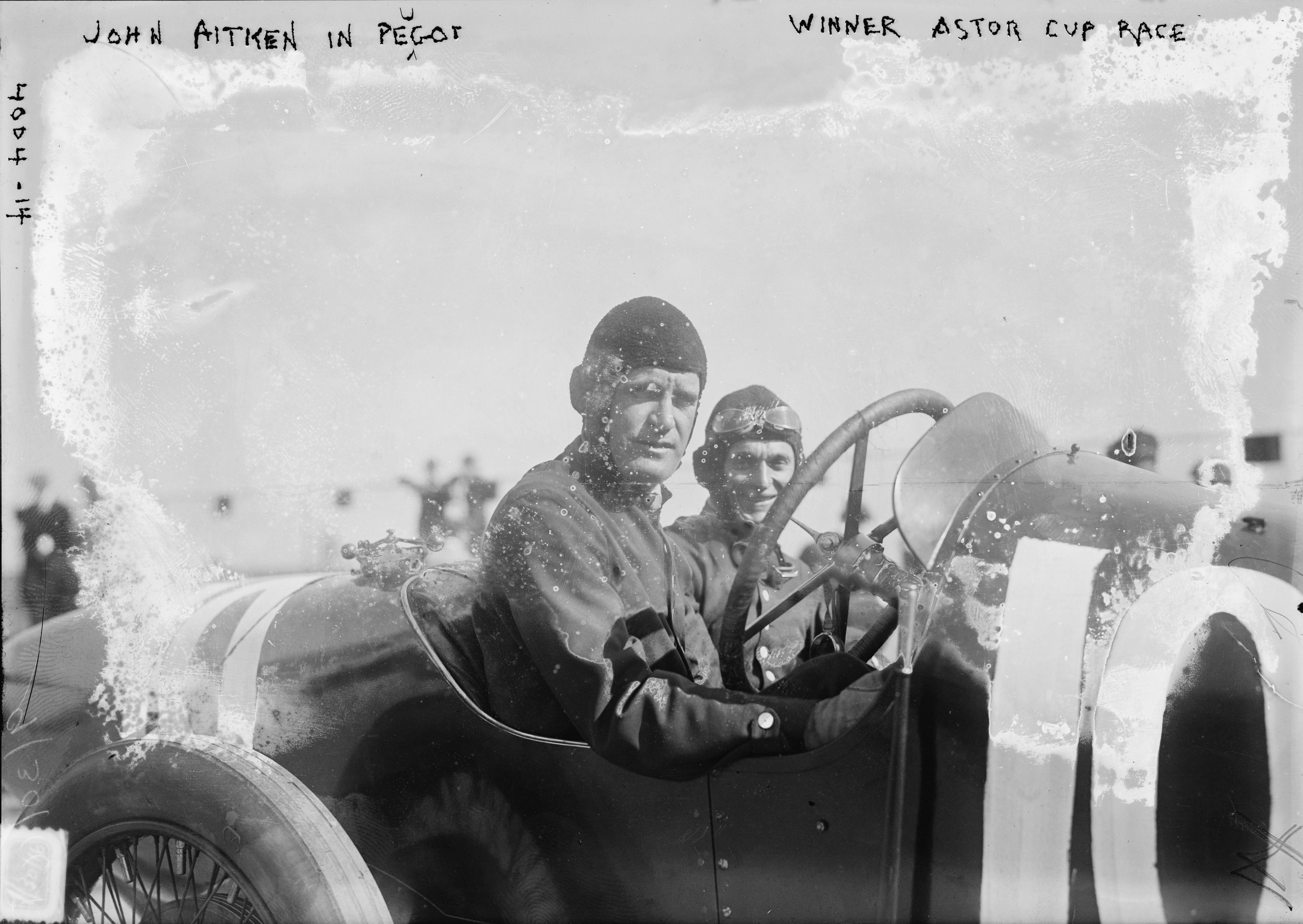 Johnny Aitken (American racecar driver) in a Peugeot in 1910s